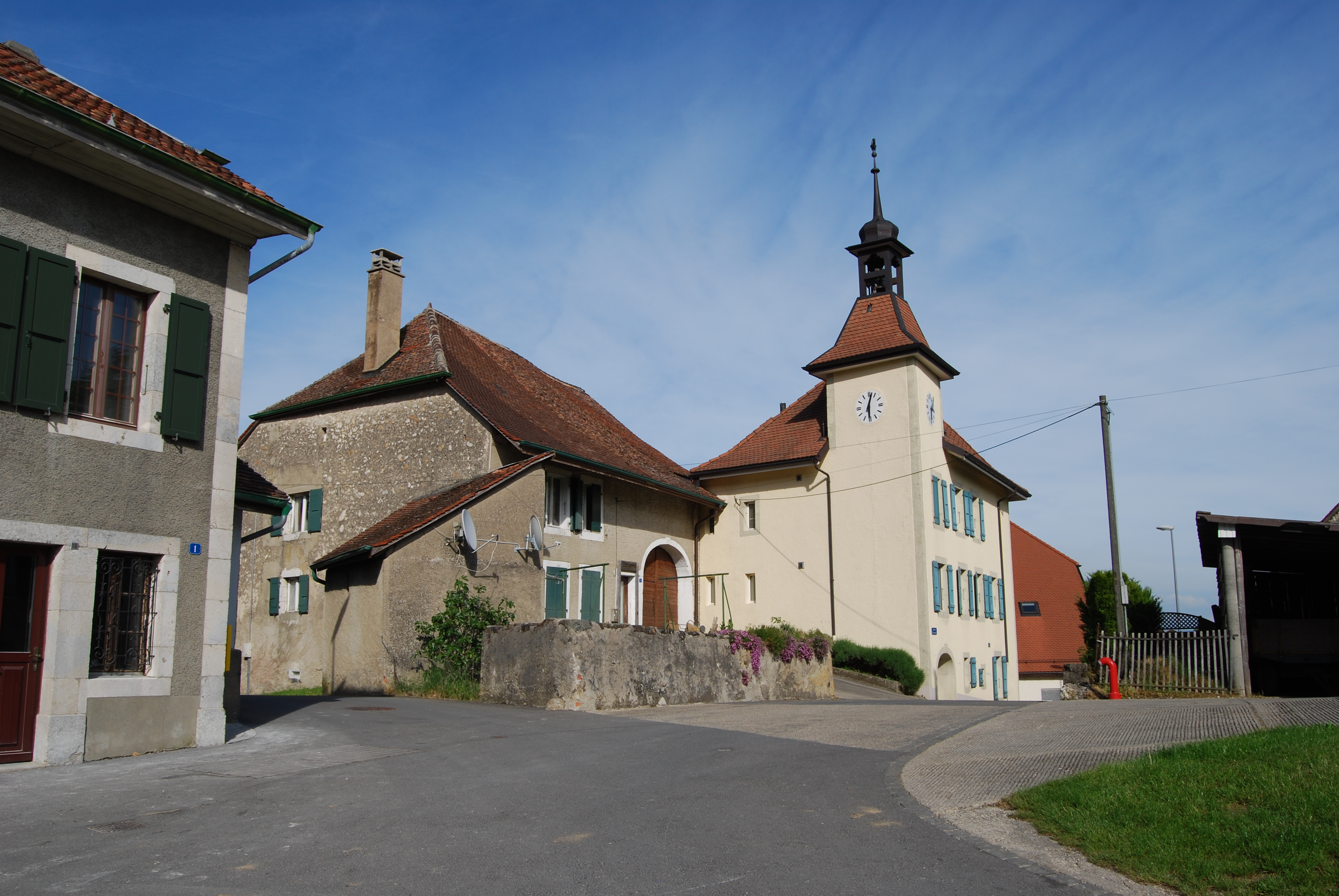 Sergey, canton of Vaud, SwitzerlandEsperanto: Sergey, Kantono Vaŭdo, Svislando